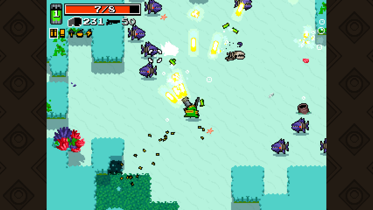 Screenshot from 2015 video game Nuclear Throne